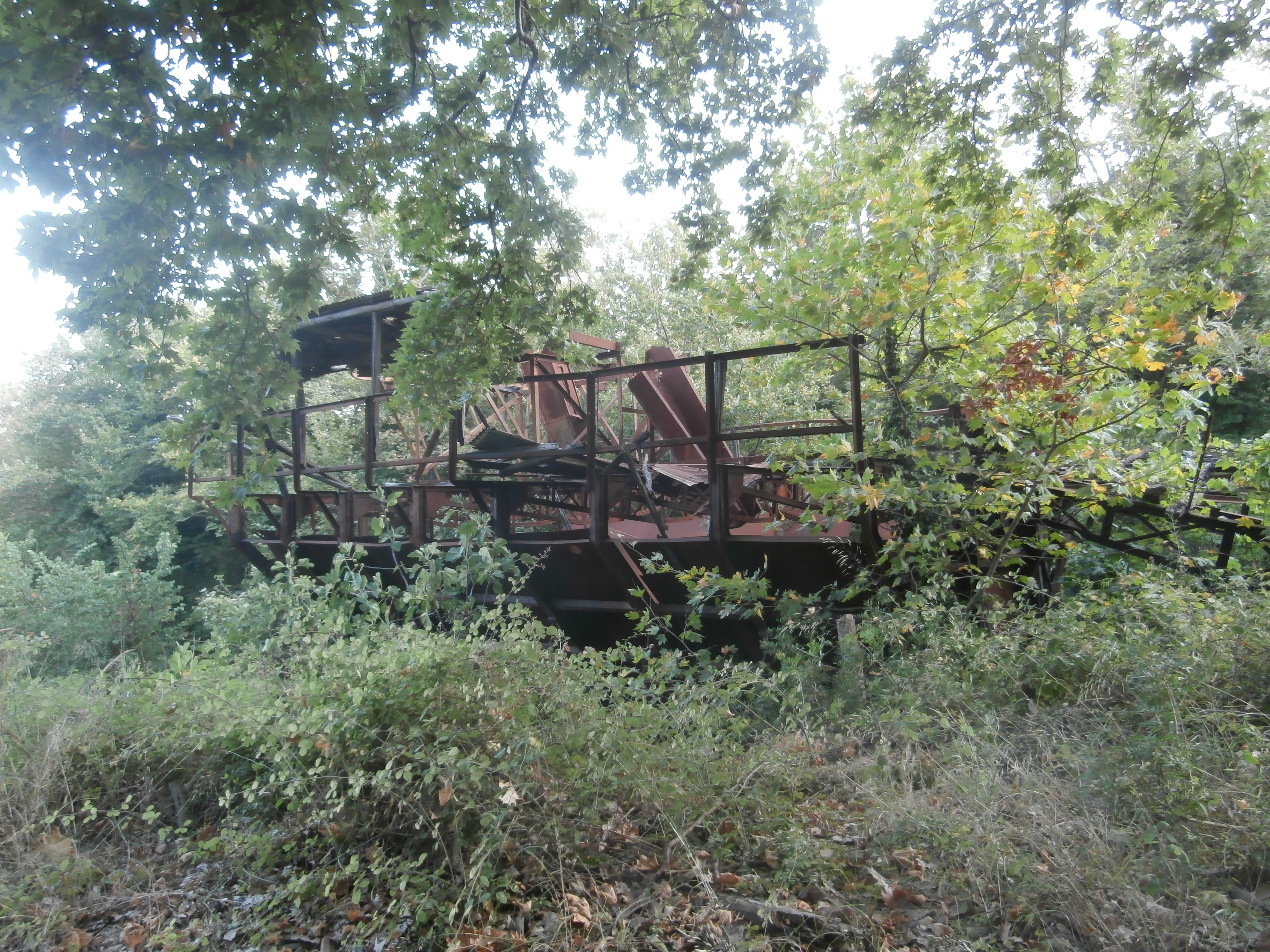 Equipment for lignite mining in Entz, near Kymi. The mine was abandoned in 1962.